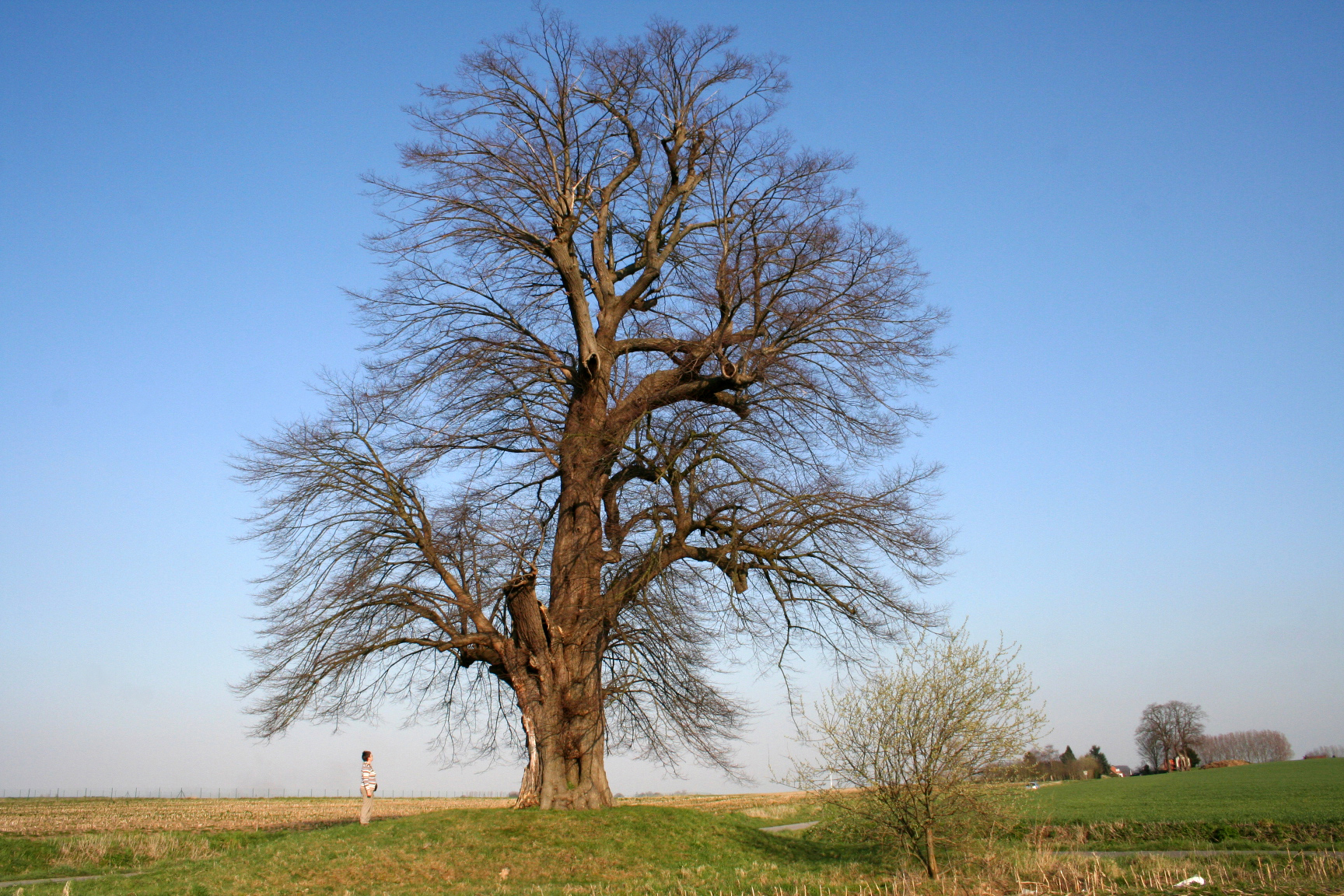 Small-Lieved Linden (Tilia cordata).